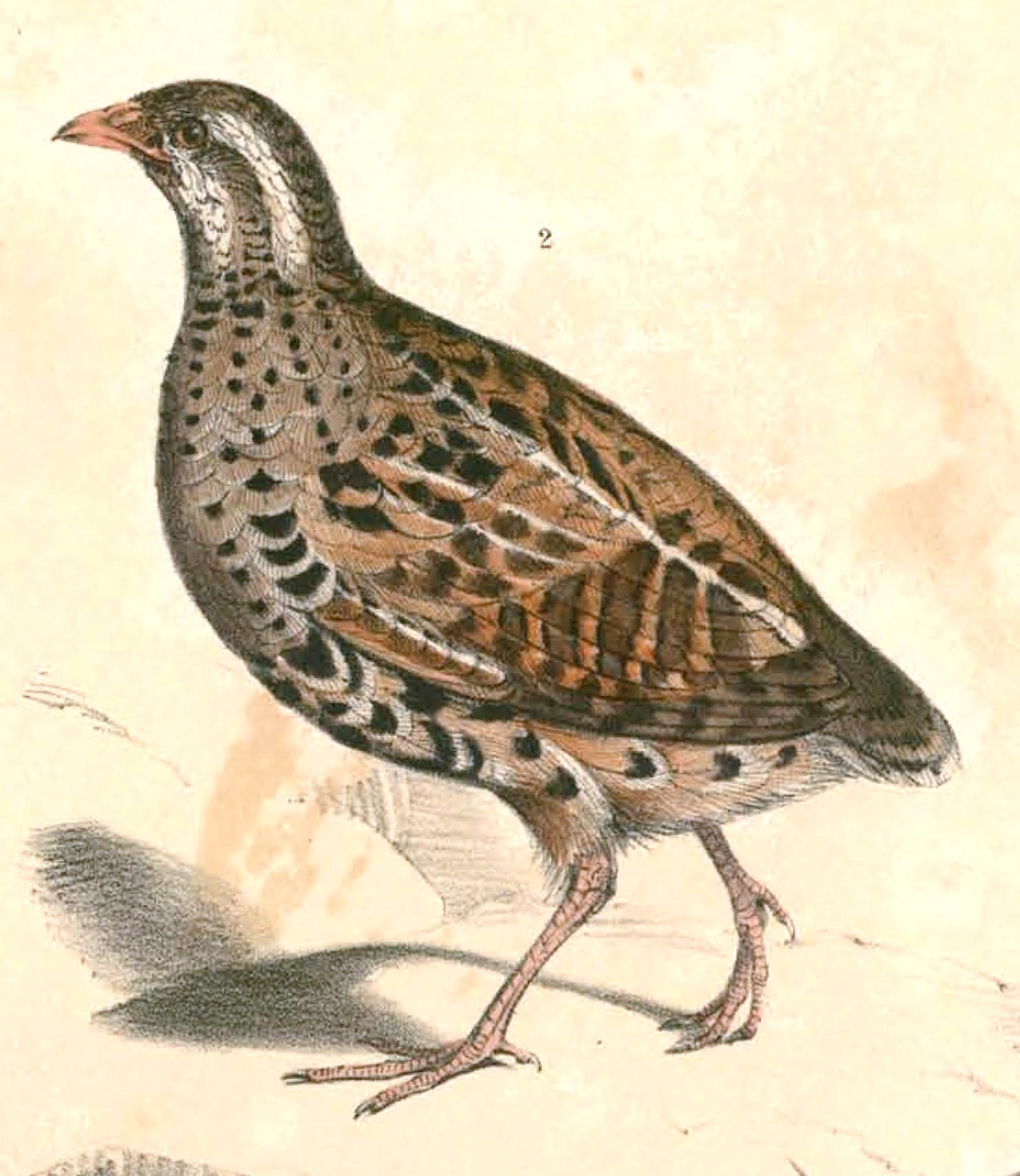 « Coturnix erythrorhyncha » = Perdicula erythrorhyncha (Painted Bush Quail)